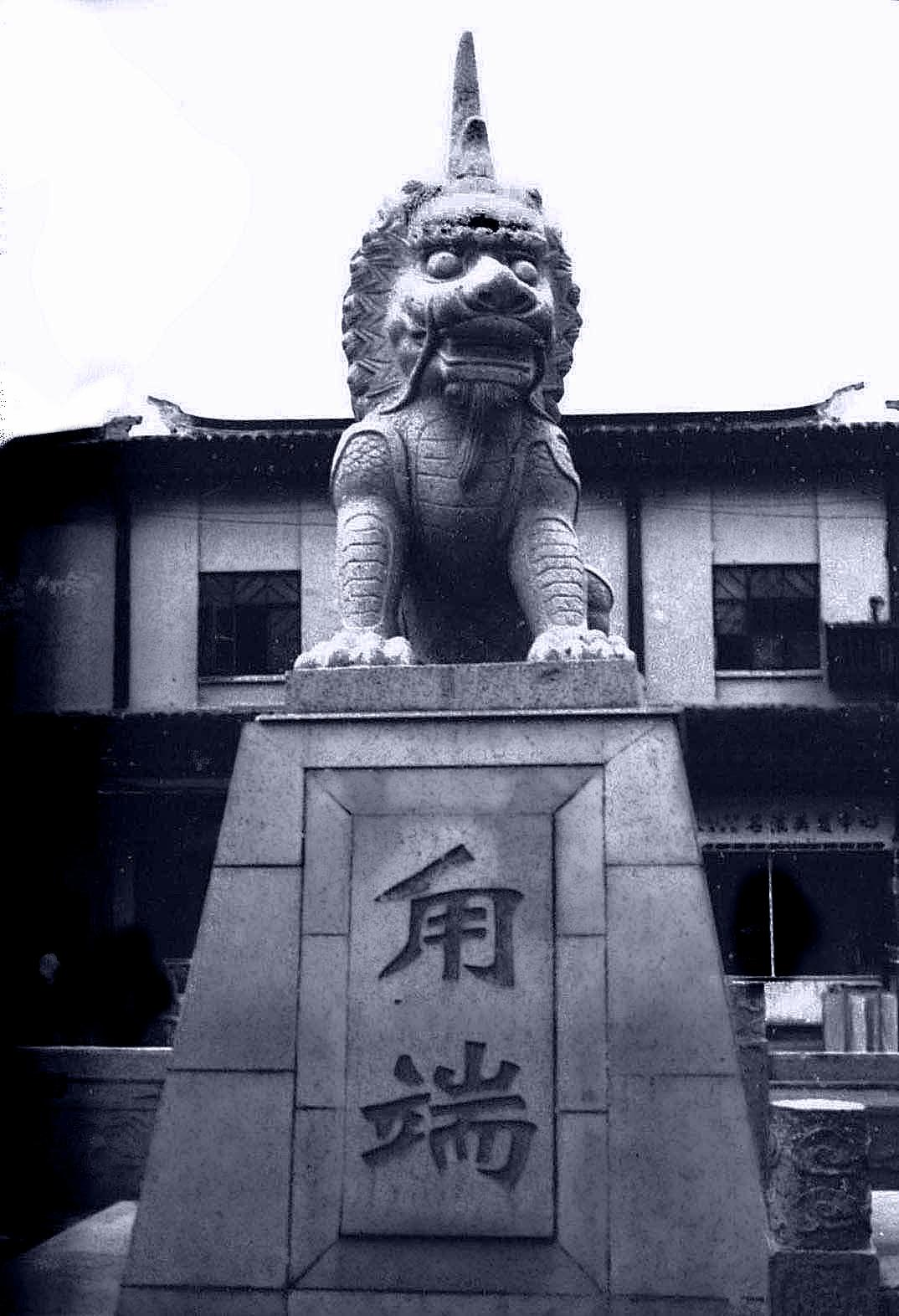 蘇州甪直鎮守護神獸甪端 The Unicorn guardian of Old Town Luzhi